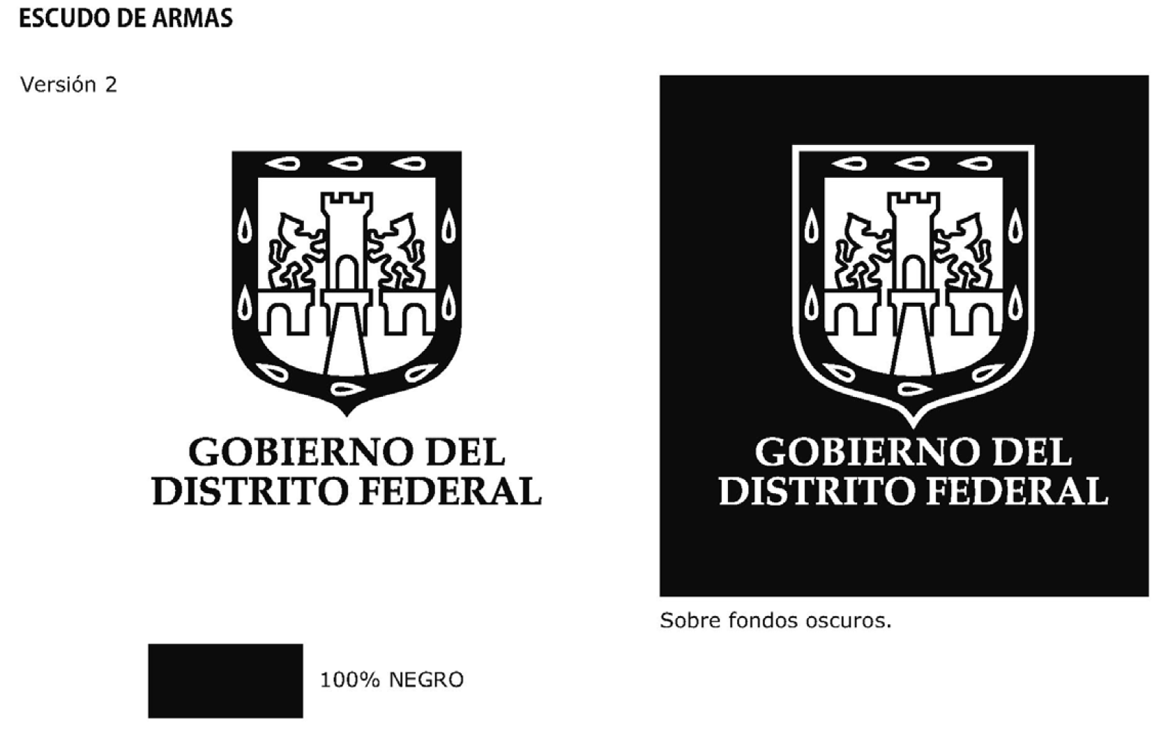 Extract from the Graphic Identity Manual of the Federal District Government, pag. 19 20FEDERAL/Manuales/DFMAN72-A.pdf